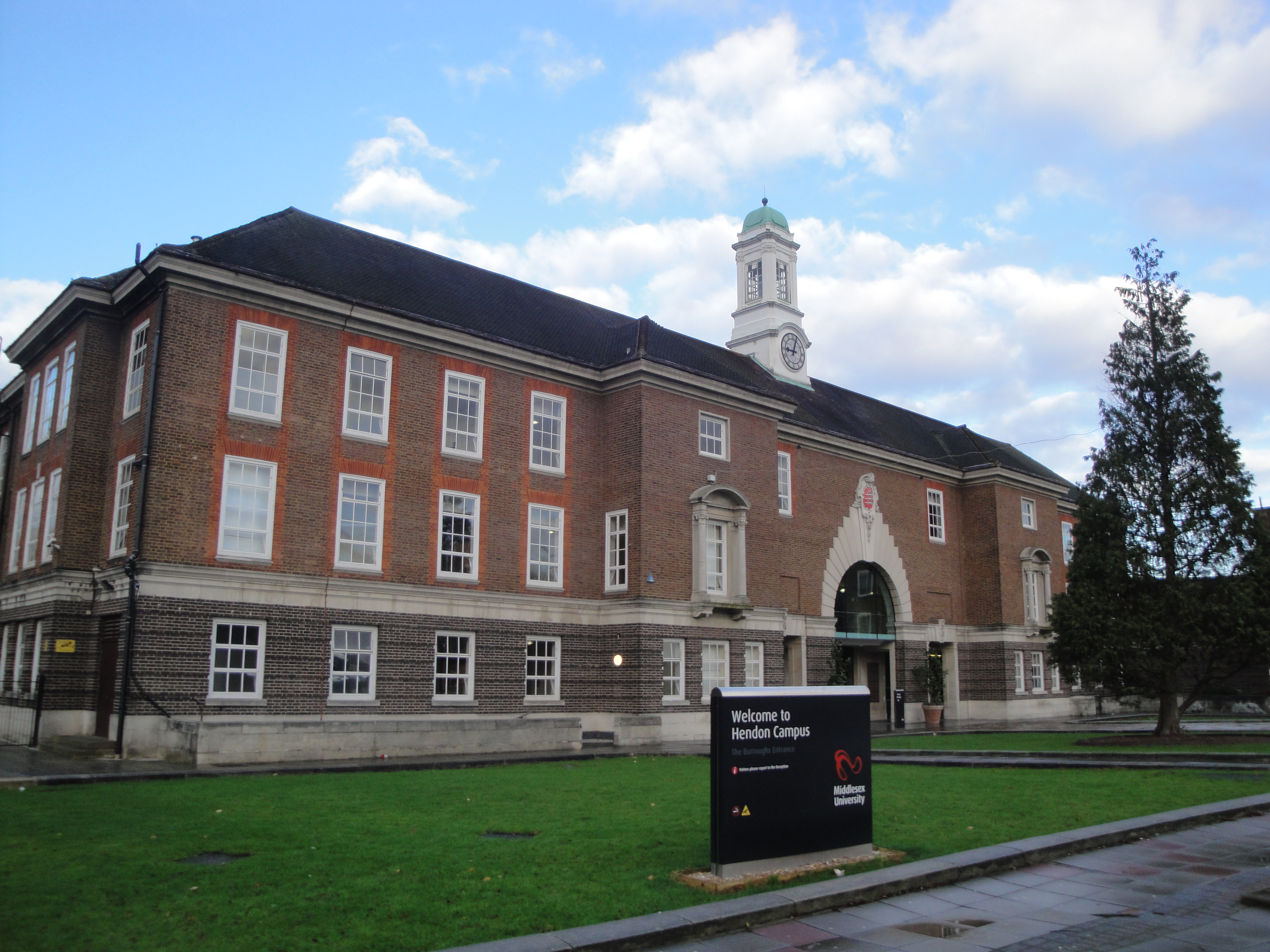 The Hendon Campus of Middlesex University, seen at the entrance from The Burroughs, Hendon, Barnet (borough), London, in December 2011.